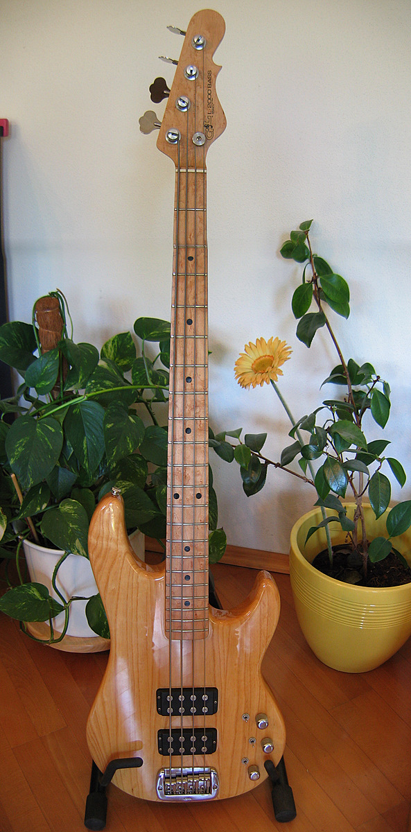 G&L L-2000 (USA, 1997) Actually it's built out of 2 pictures. That's why the neck looks like it has a bow.